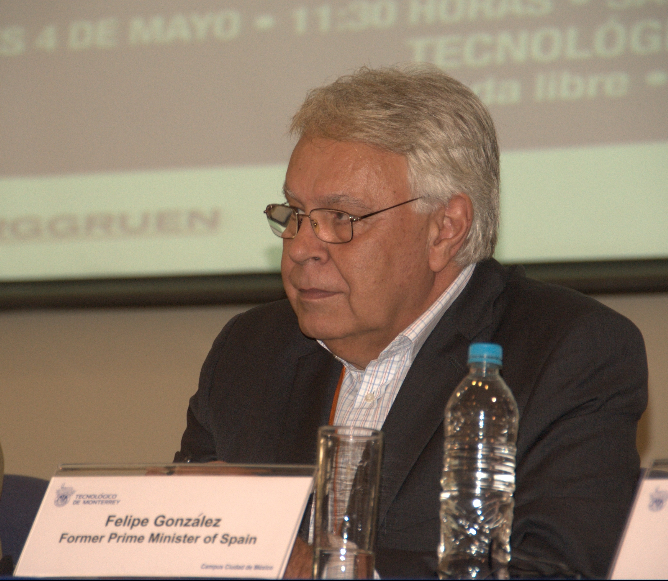 Felipe Gonzalez at the Global Governance event at ITESM- Campus Ciudad de México